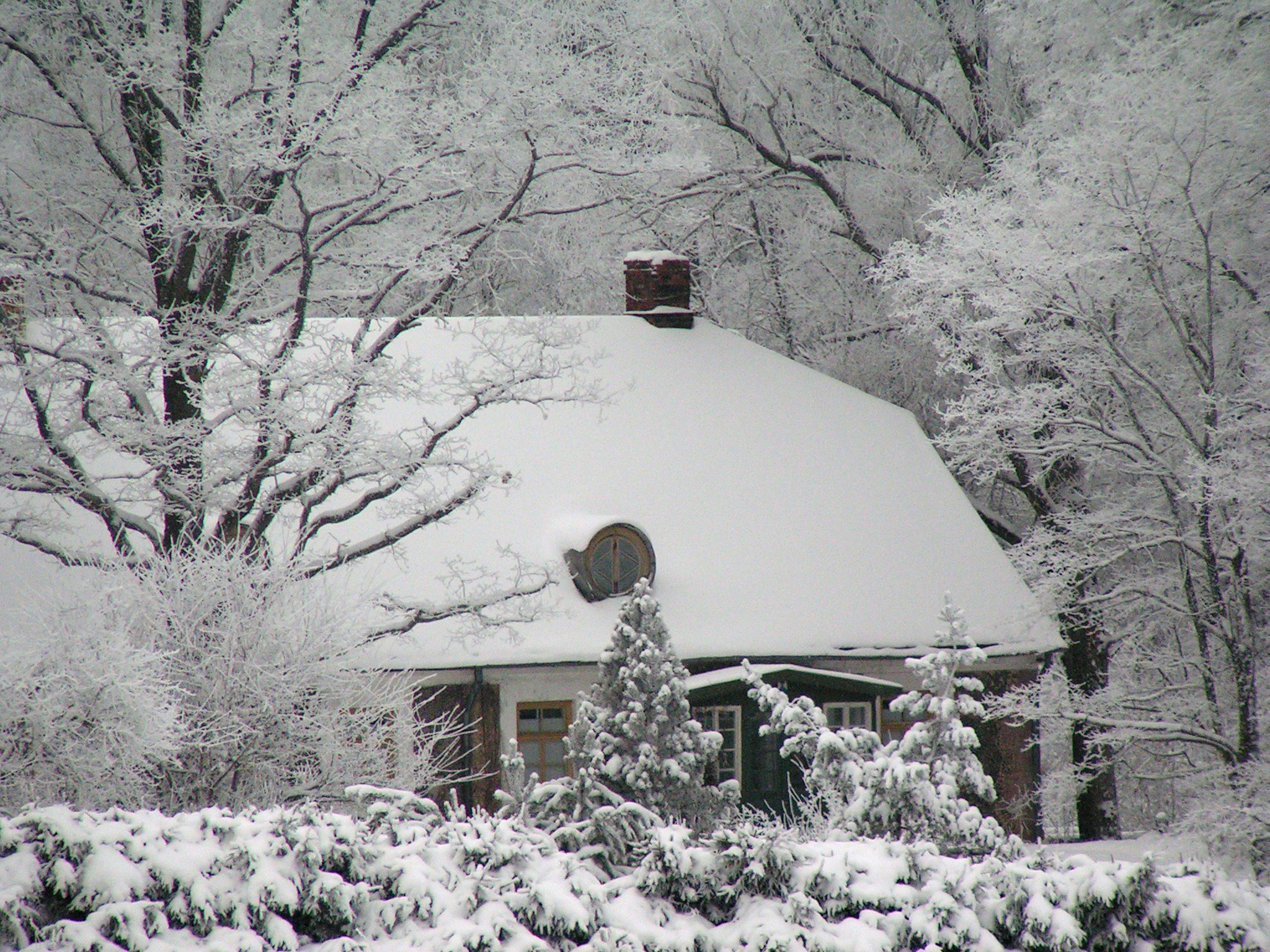 Anna Brigadere's Memorial Museum Sprīdīši in Tervete.